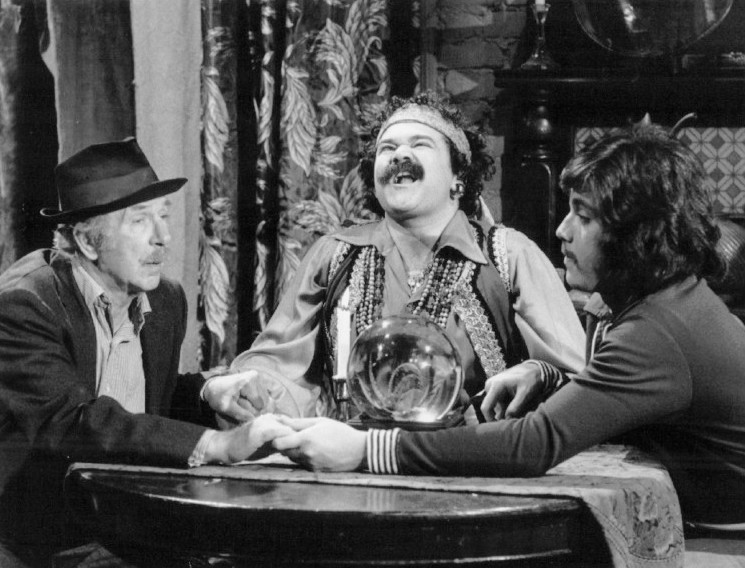 Photo of Jack Albertson, Avery Schreiber and Freddie Prinze from the television program Chico and the Man. Schreiber plays a very unsuccessful fortune teller Ed and Chico are trying to help out.